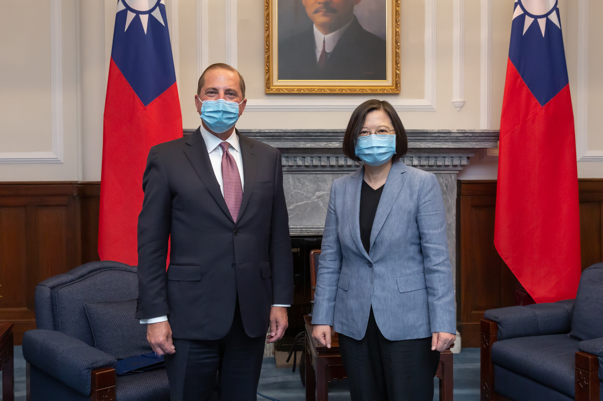 U.S. Health and Human Services Secretary Alex Azar is meeting with ROC Taiwan President Tsai Ing-wen